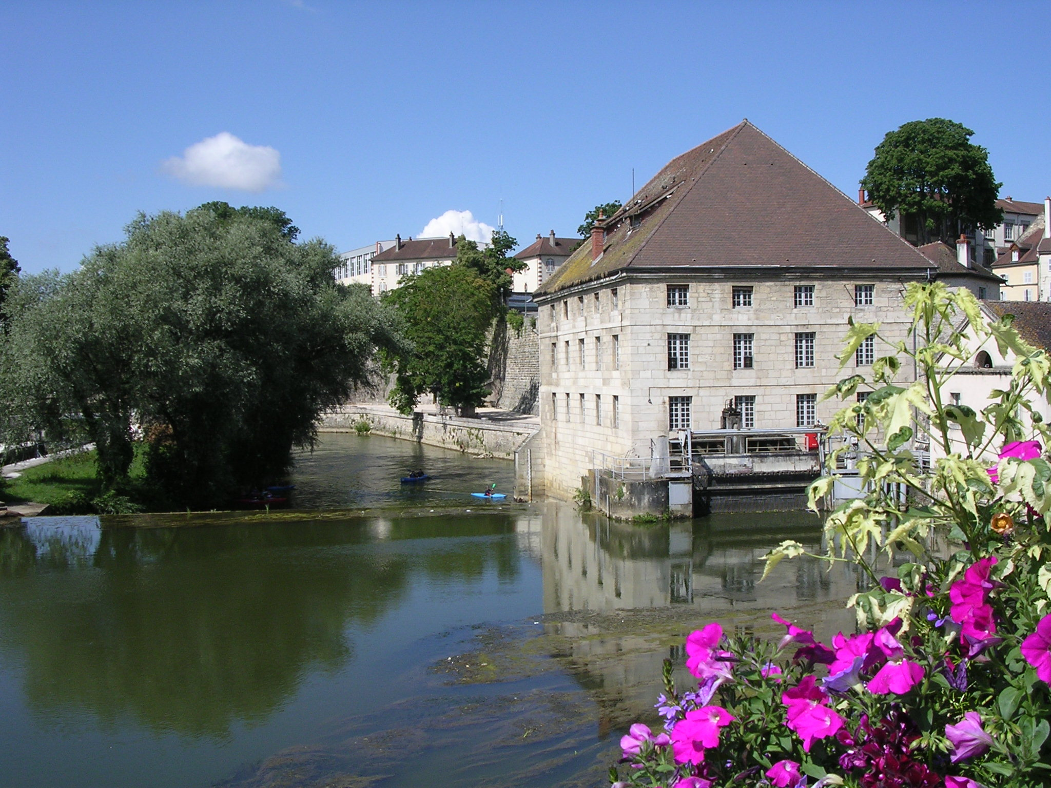 Dole, Jura, FRANCE